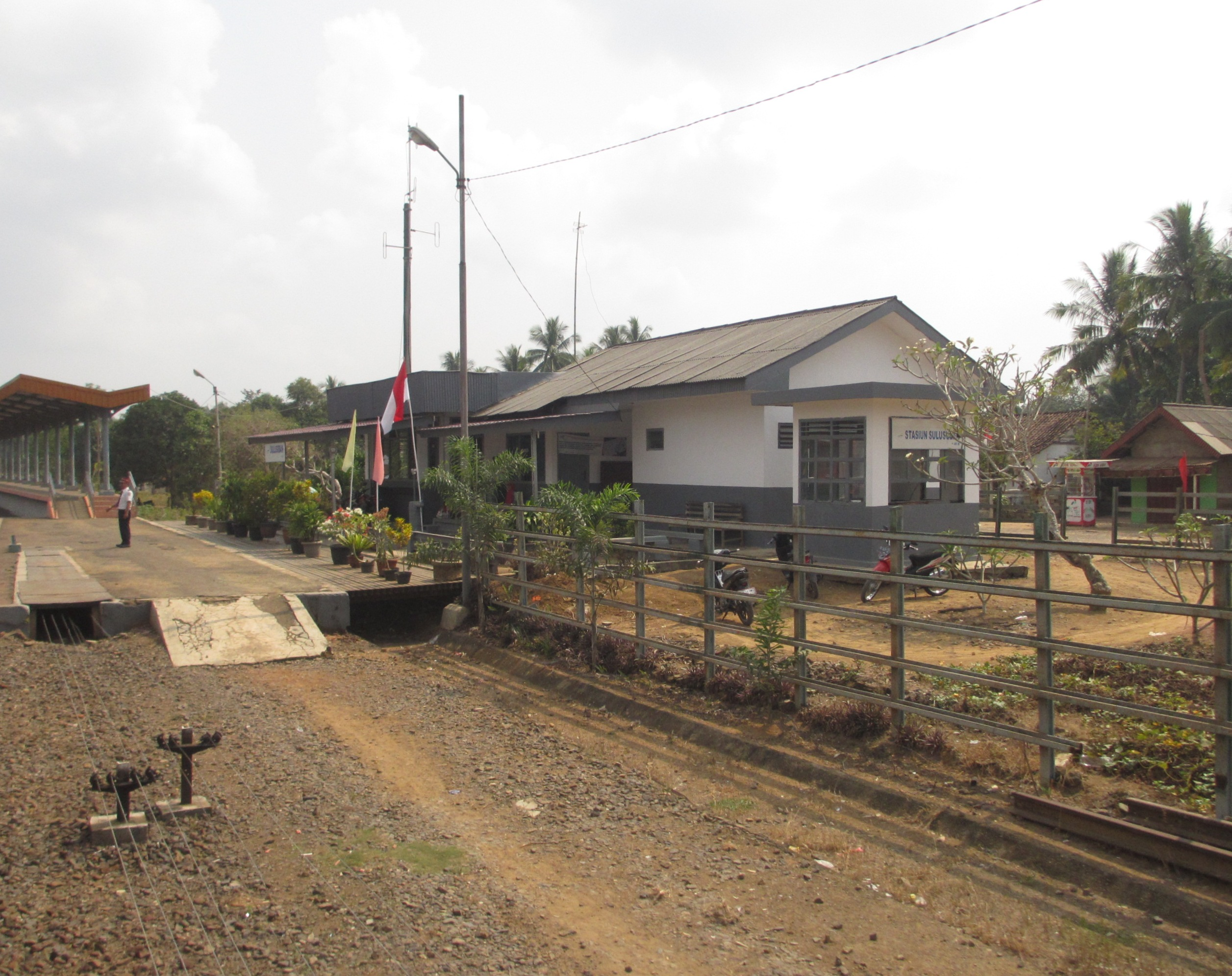 Sulusuban railroad station building.